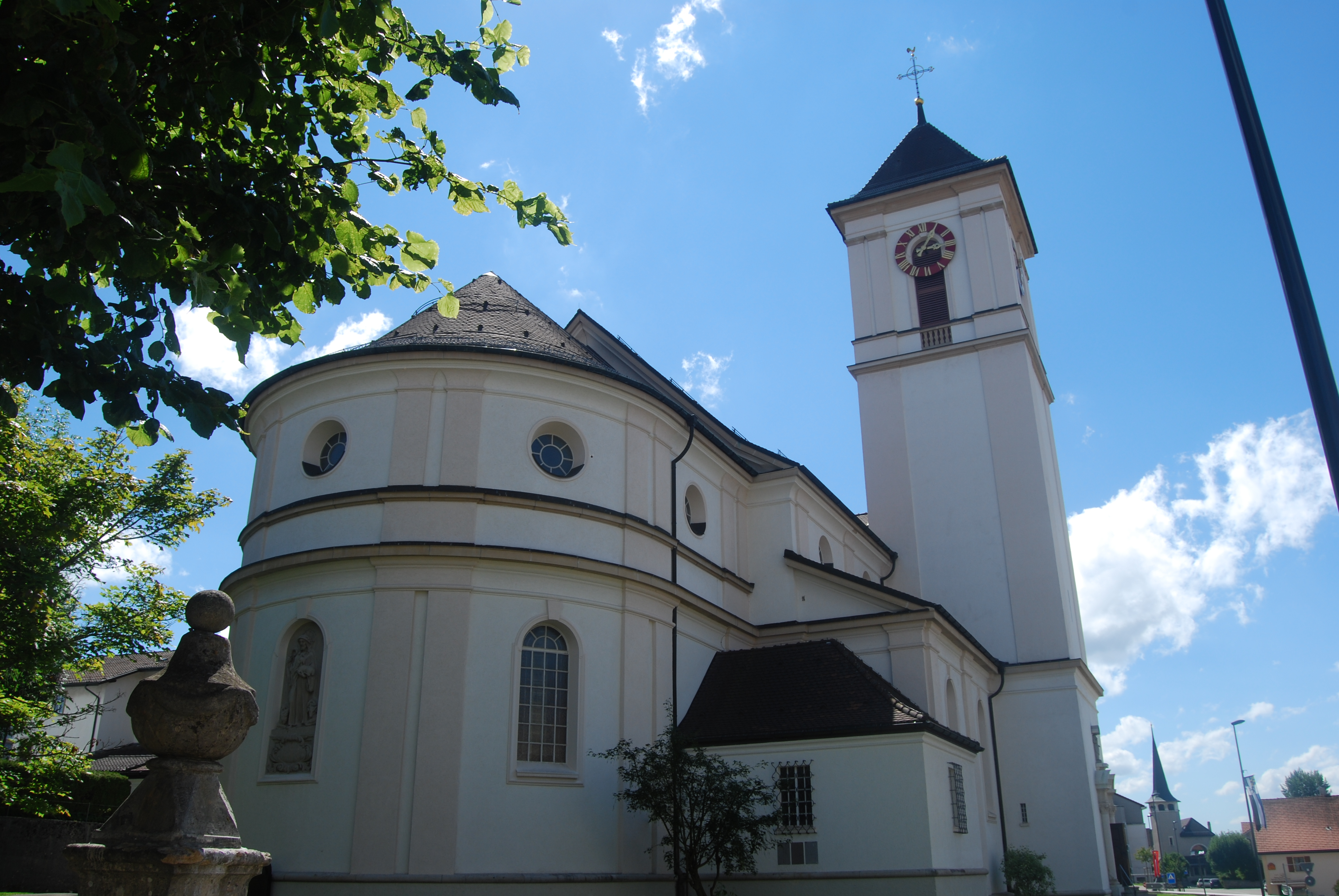 Catholic church of Saignelégier, canton of Jura, SwitzerlandEsperanto: Katolika preĝejo de Saignelégier, Kantono Ĵuraso, Svislando